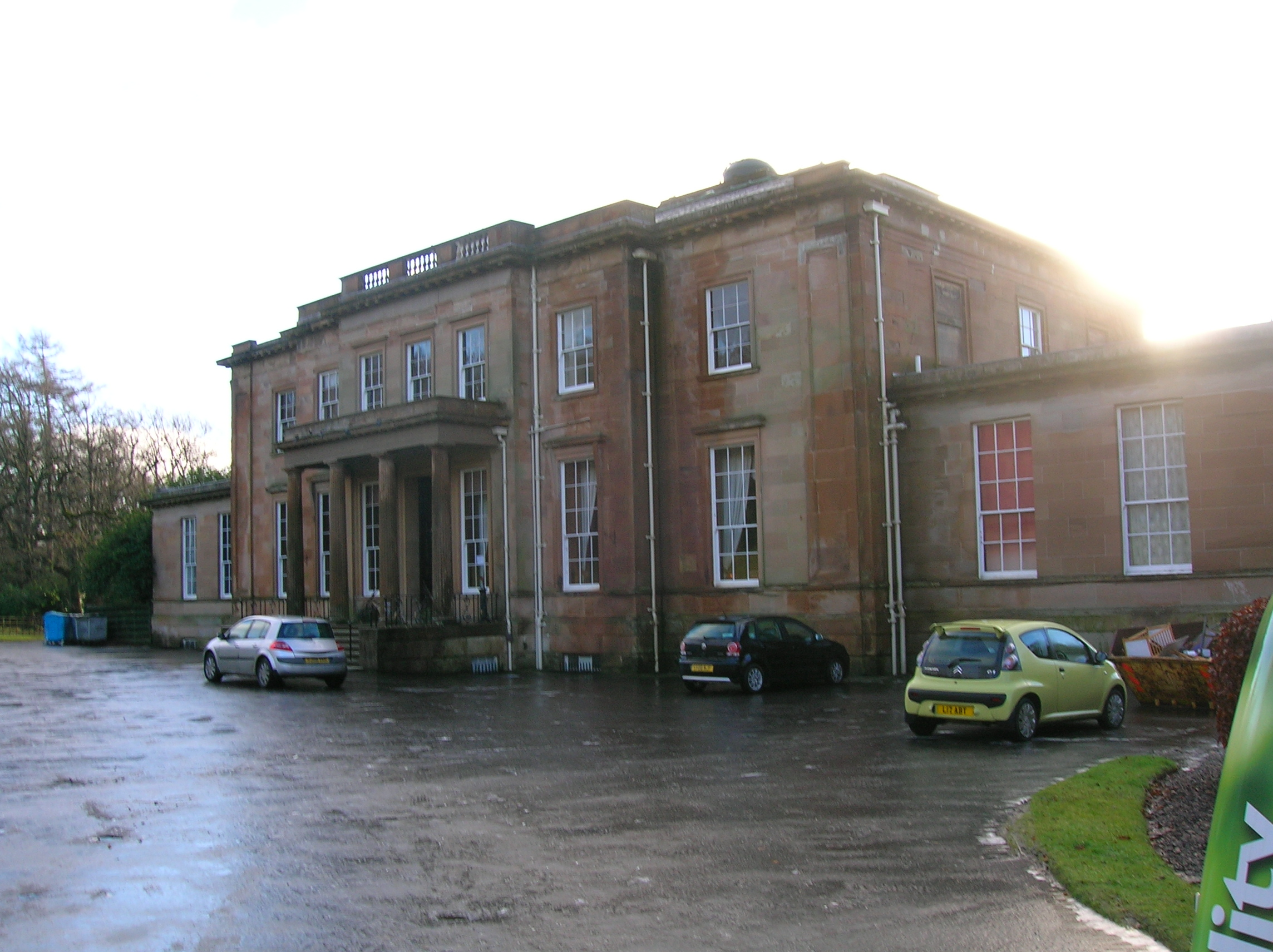 Montgreenan Mansion House, Kilwinning, North Ayrshire, Scotland